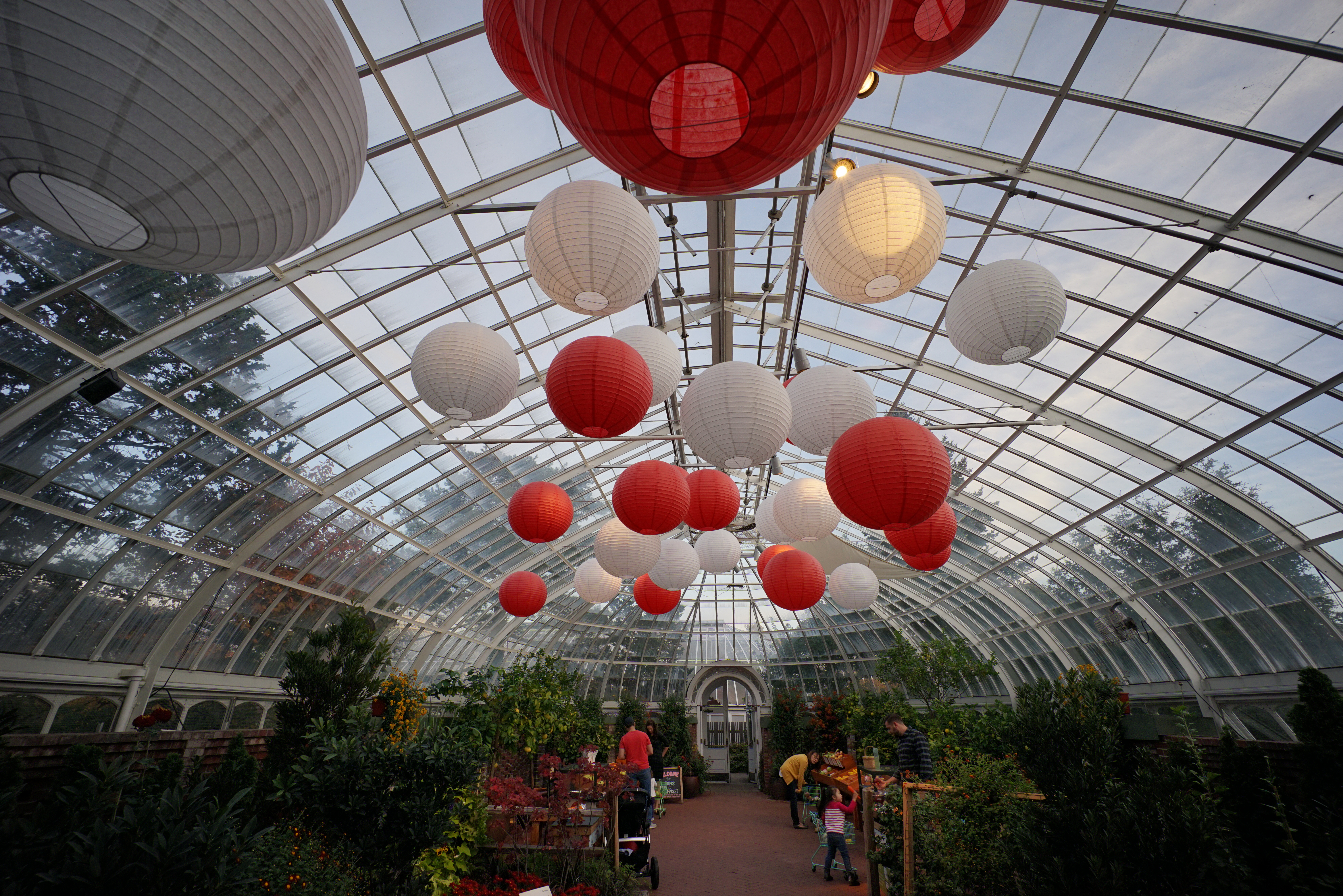 The Gallery Room with the Farmer's Market at the Phipp's Conservatory. The Phipps Conservatory and Botanical Gardens is a complex of buildings and grounds set in Schenley Park, Pittsburgh, Pennsylvania. Founded in 1893, the gardens serve to educate and entertain the people of Pittsburgh with formal gardens.